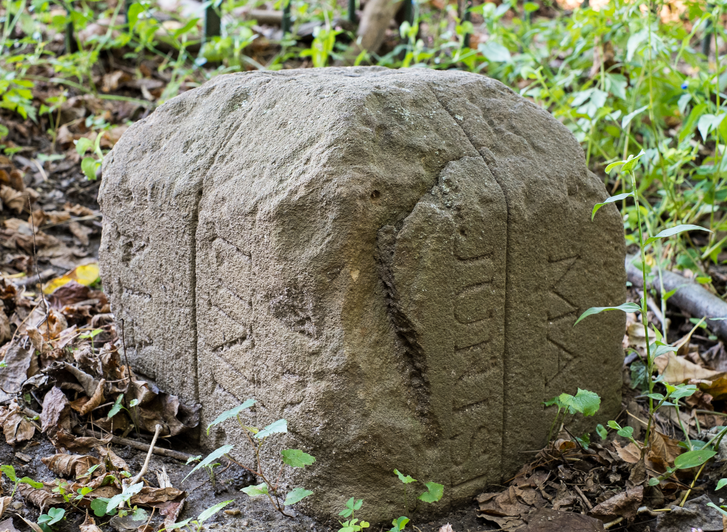 North Corner Boundary Marker of the Original District of Columbia, 1880 block of East-West Hwy. NW